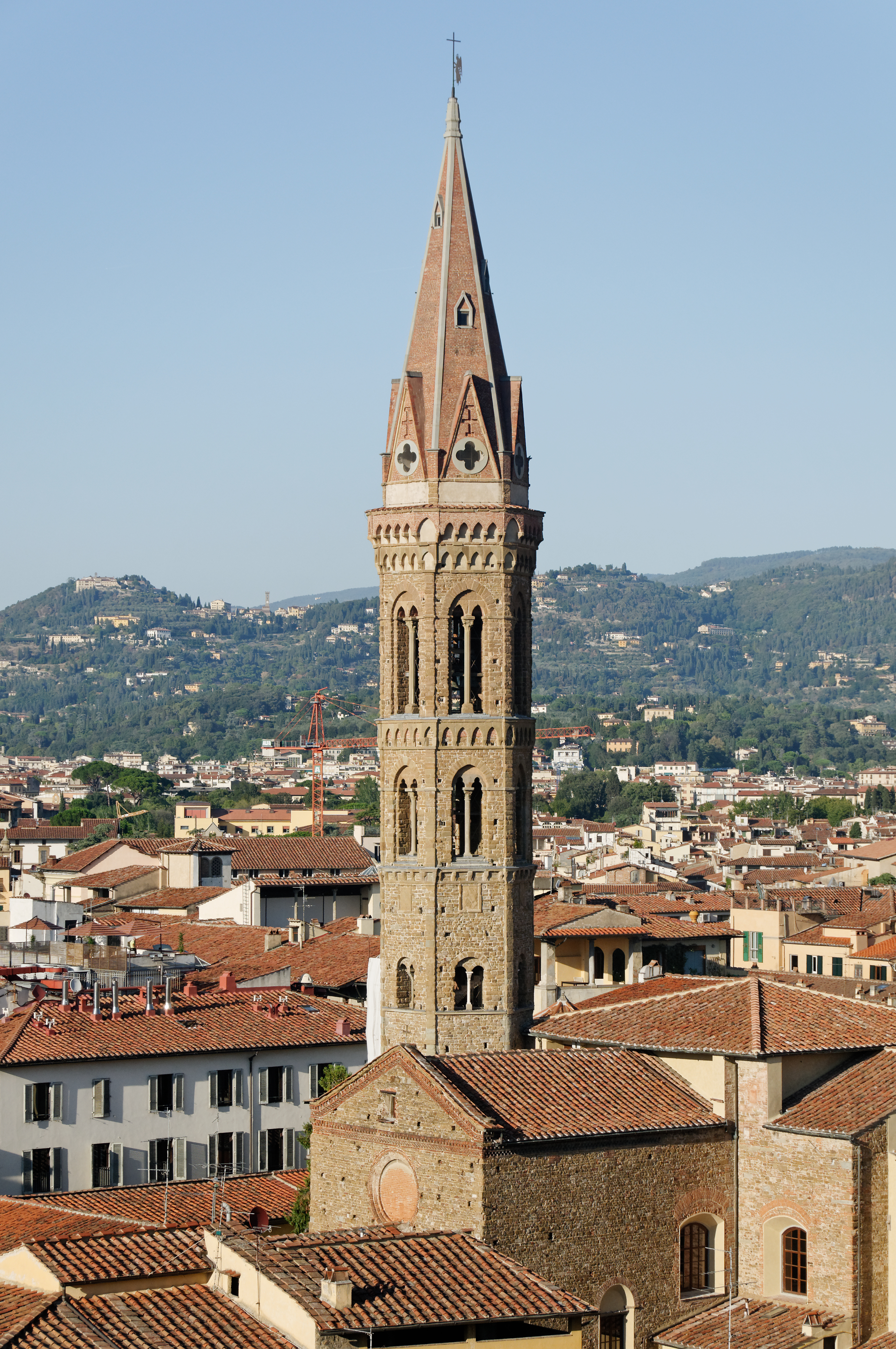 The bell-tower of the Badia Fiorentina viewed from the chemin de ronde of the Palazzo Vecchio in Florence.